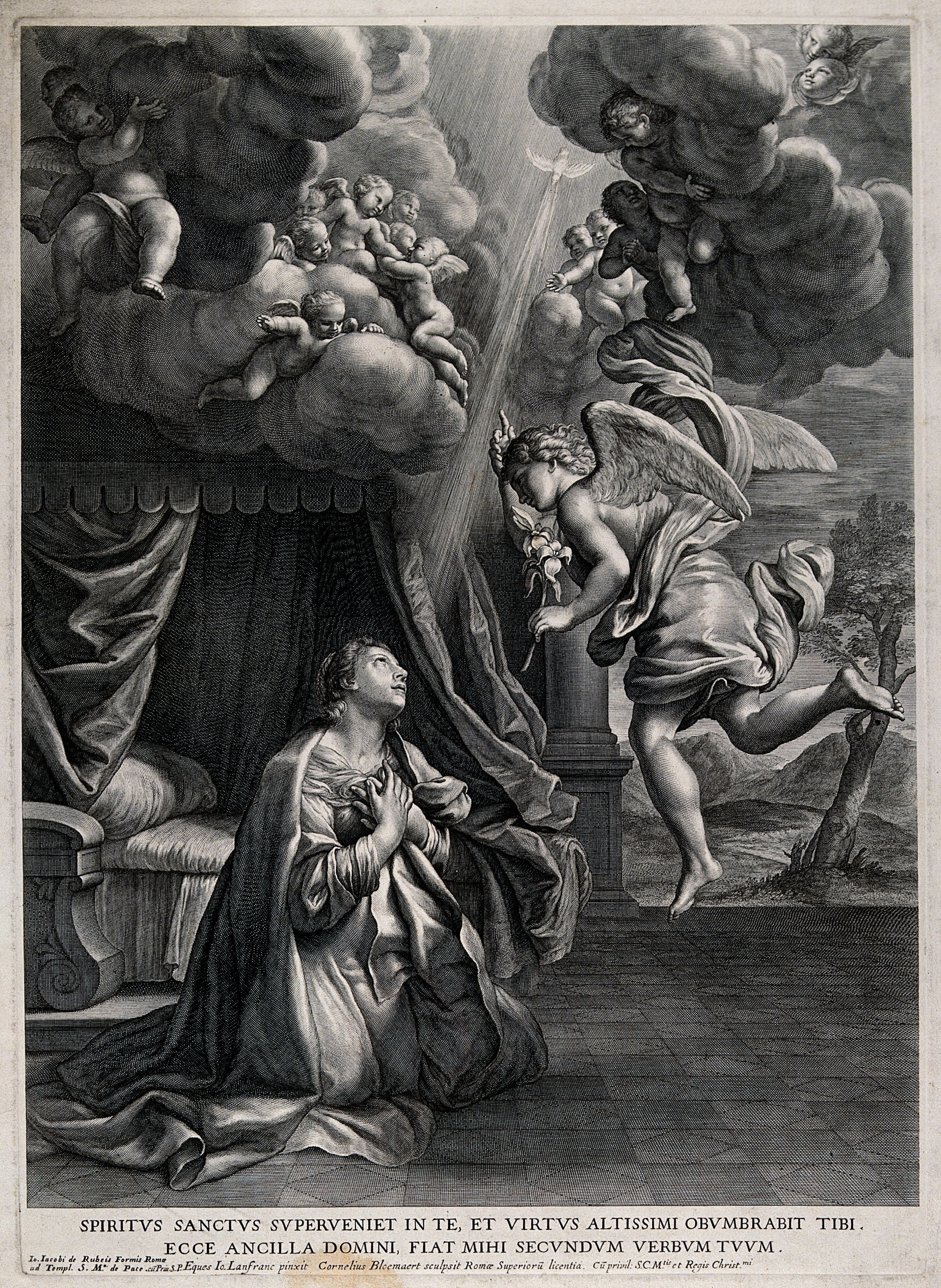 The Annunciation to the Virgin. Engraving by C. Bloemaert, c. 1650, after G. Lanfranco. Iconographic Collections Keywords: Blessed Virgin Mary; Cornelis Bloemaert; Giovanni Lanfranco